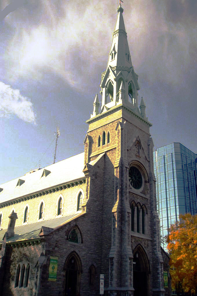 User:SimonP